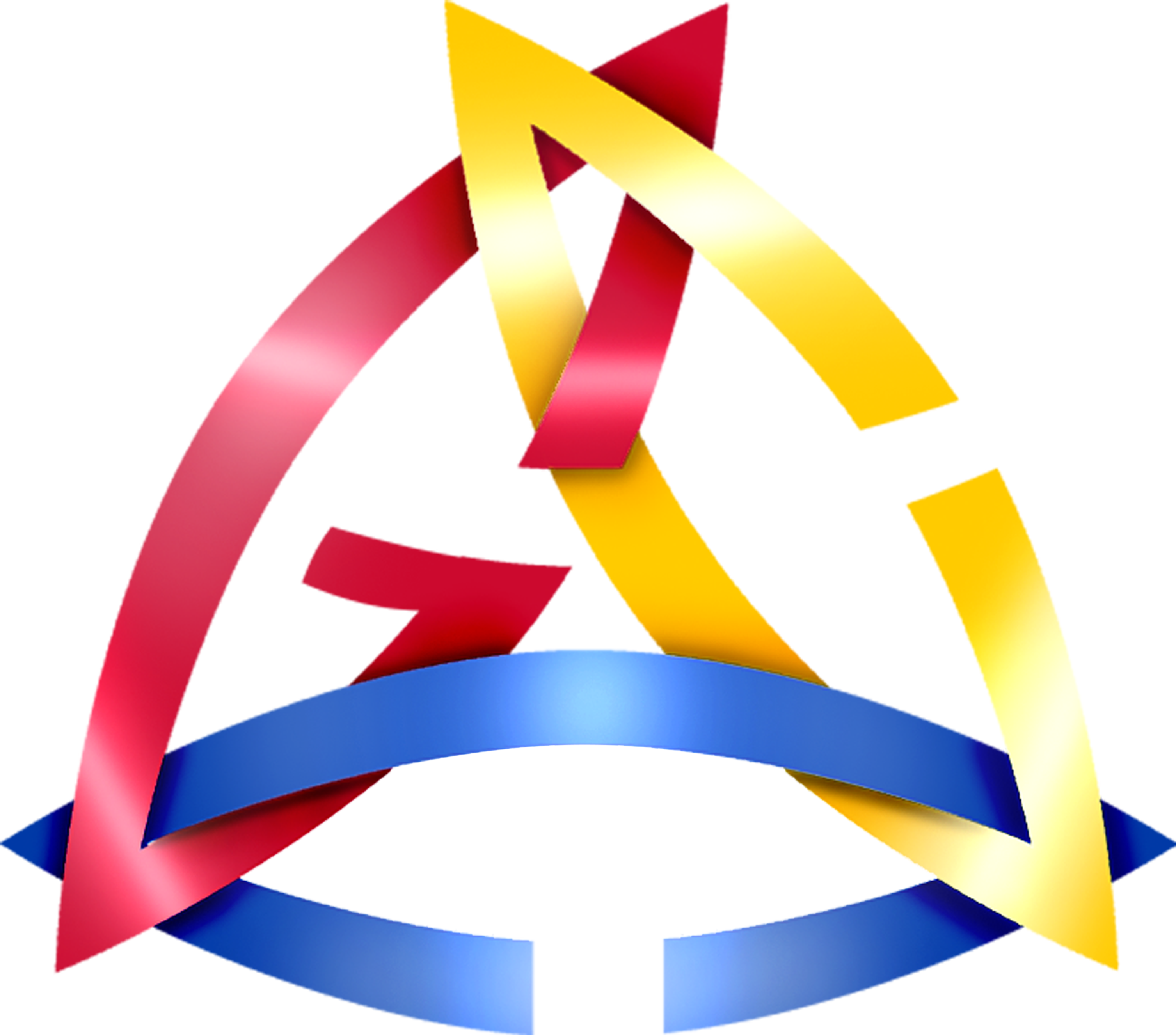 Gateway Concentrix Logo